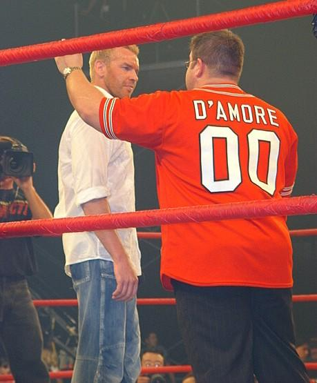 Christian Cage debut at TNA Photo by Rob Beukema